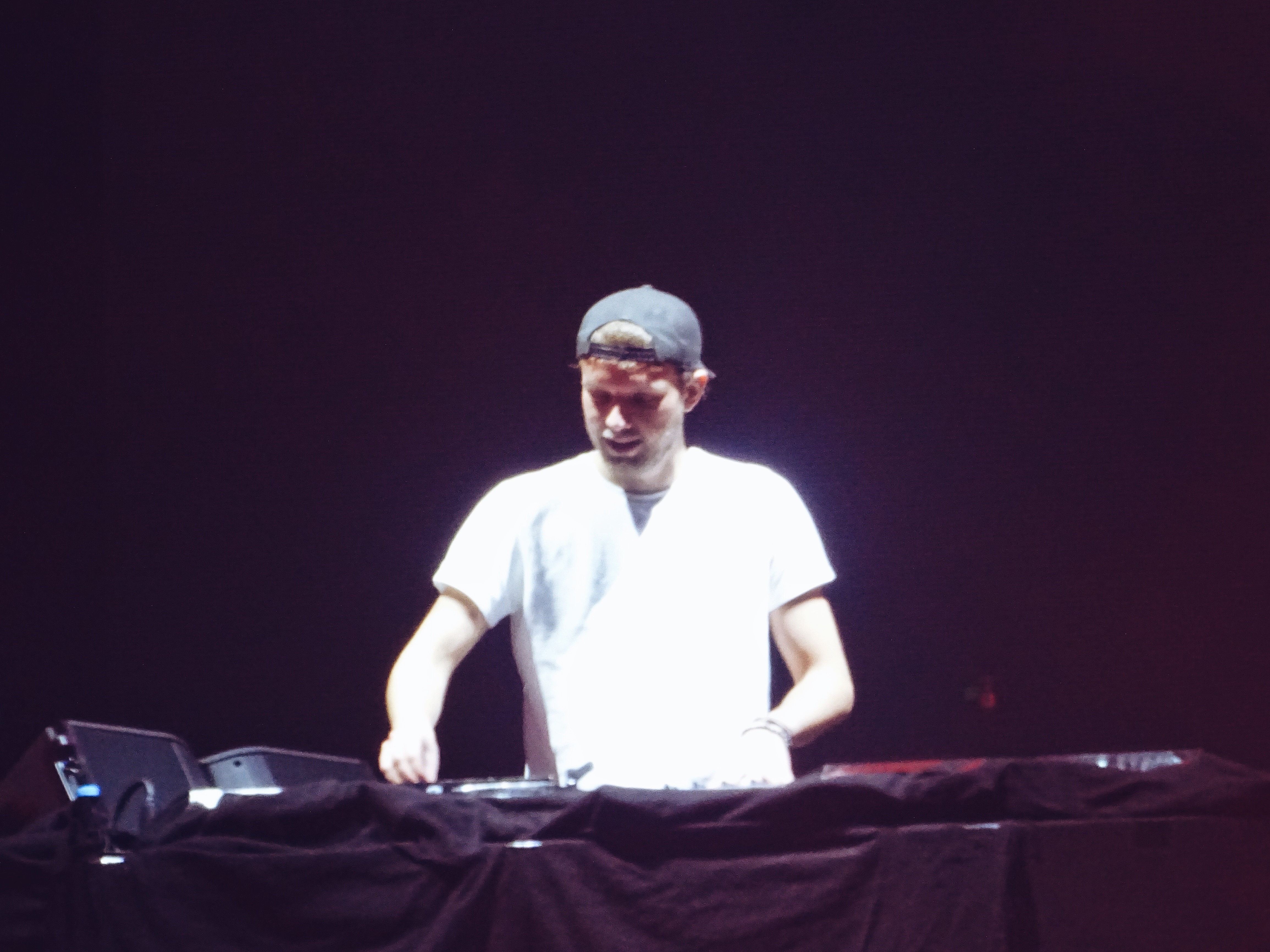 Brooks playing live as a support act for Martin Garrix appearance at BigCityBeats World Club Dome Winter Edition 2017.